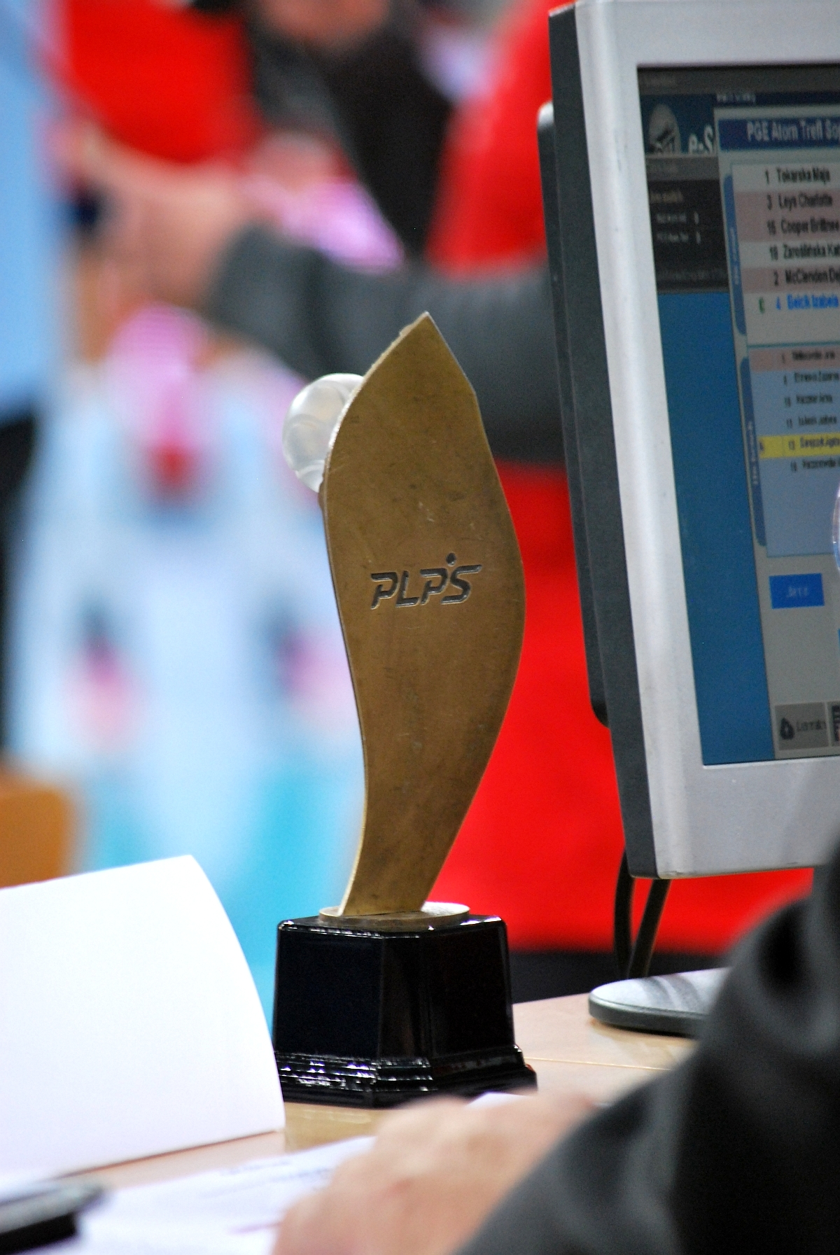 MVP Orlen Liga trophy 2014-2015